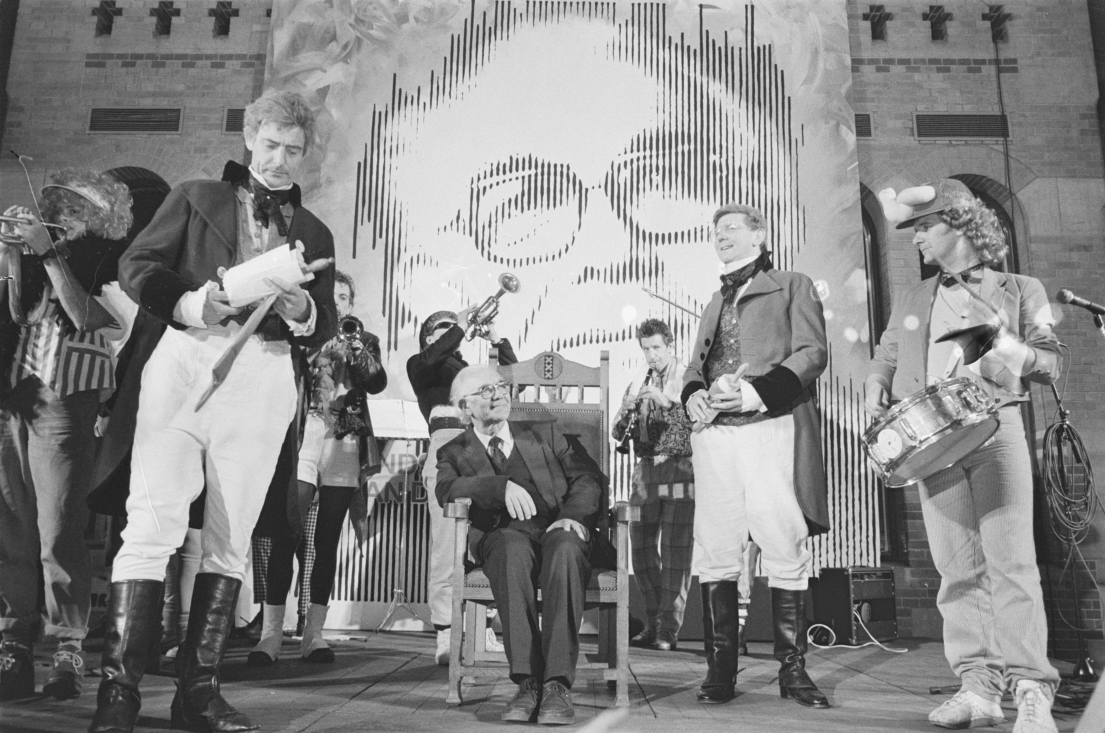 Jan van Kilsdonk at his 70th birthday (Nieuwe Kerk, Amsterdam, NL, 16 May 1987)